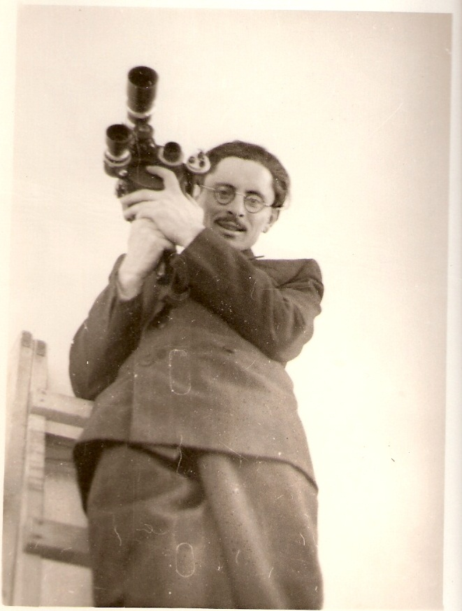 I. Gershtein, from the Gershtein family archive.